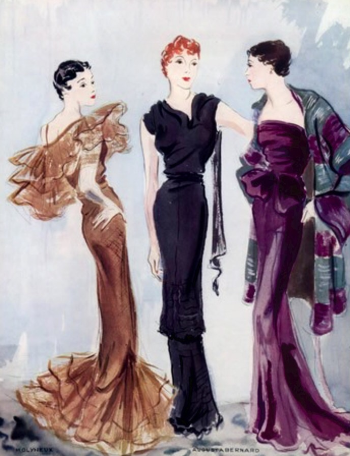 Augusta Bernard, also Augustabernard, (1886–1946)[1] was a French fashion designer who gained recognition for creating long, neoclassical evening dresses during the early 1930s. Guess this pic as 1935